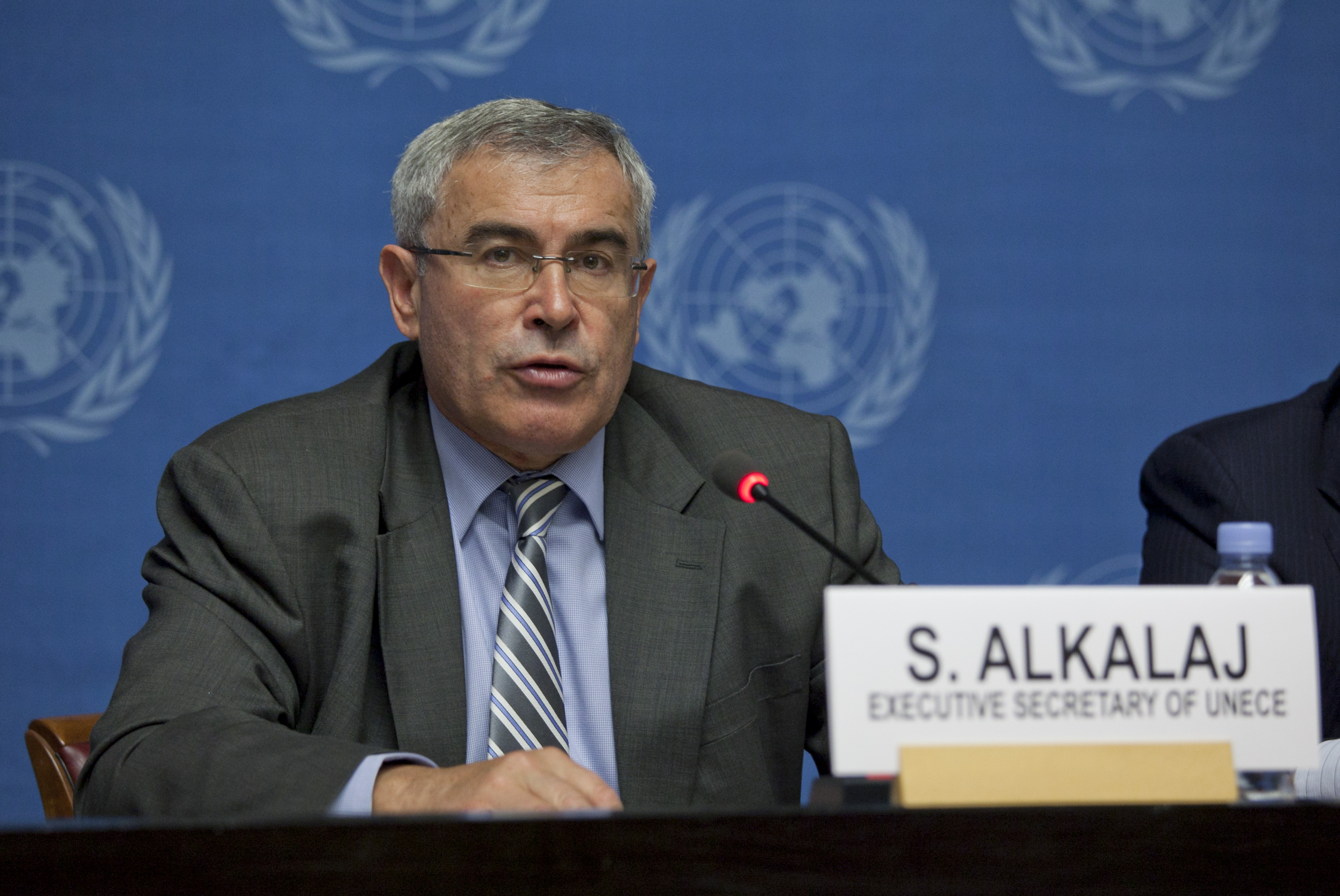 Sven Alkalaj